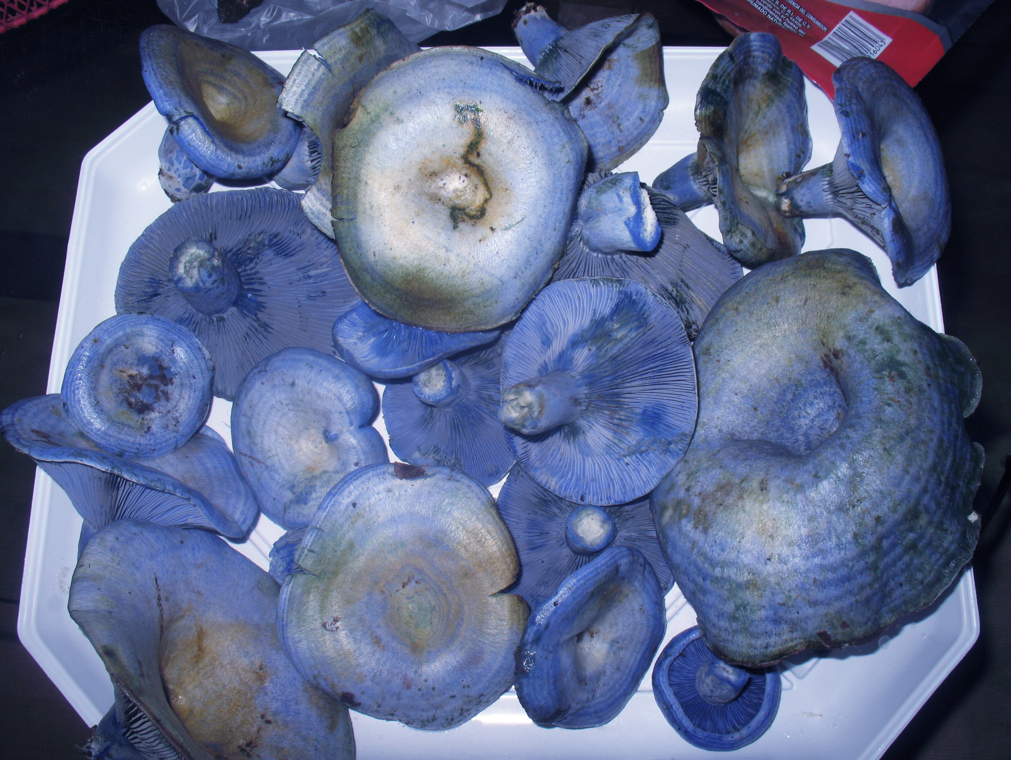 A collection of the edible mushroom Lactarius indigo (Schwein.) Fr. Specimens found in Jalisco, Mexico.